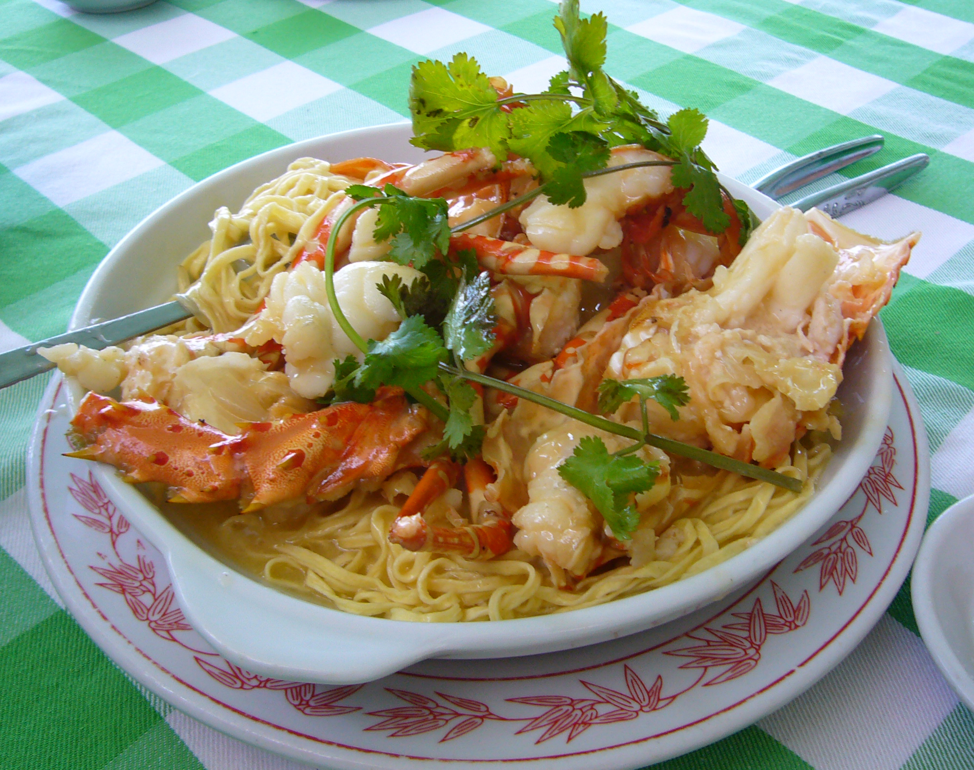 Lobster with E-Fu Noodle in Hong kong